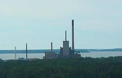 Vaskiluoto coal power plant in Vaasa, Finland. Taken from the Vaasa water tower.